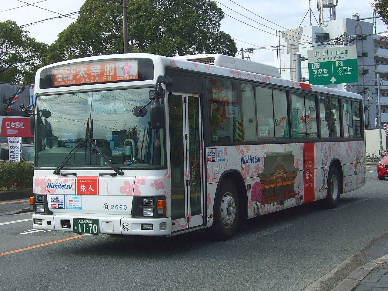 Nishitetsu Bus "Dazaifu Liner Bus Tabito" Company:en:Nishi-Nippon Railroad Use:transit bus Belongs to:Amagi Depot Car license:FOR200 KA 1170 Code:2660 Chassis manufacturer:Isuzu Motors Type:Isuzu Erga Coachbuilder:J-BUS Location:in Dazaifu City, Fukuoka, Japan.